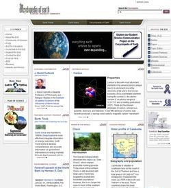 Screenshot of the website homepage of